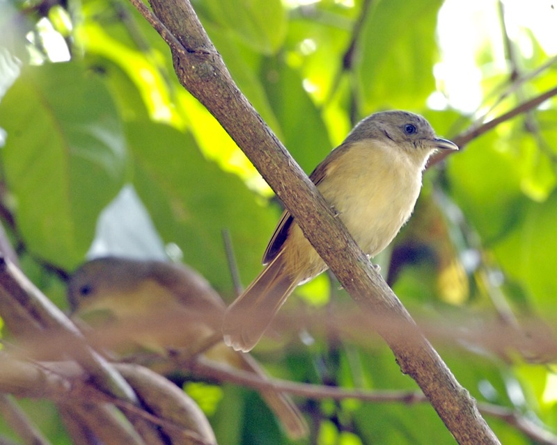 Brown-cheeked Fulvetta, Alcippe poioicephala